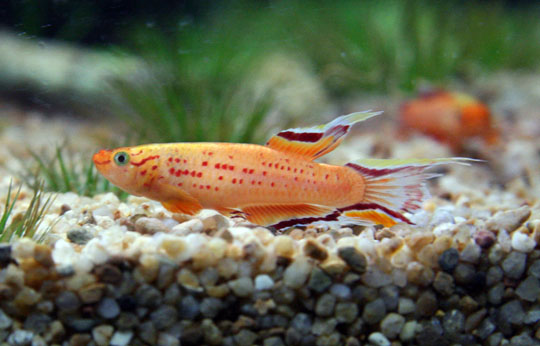 A golden lyretail killifish (Aphyosemion australe) in an aquarium. This specimen is shown at a fish show in Bangkok, Thailand, in 2009. Picture taken by myself.